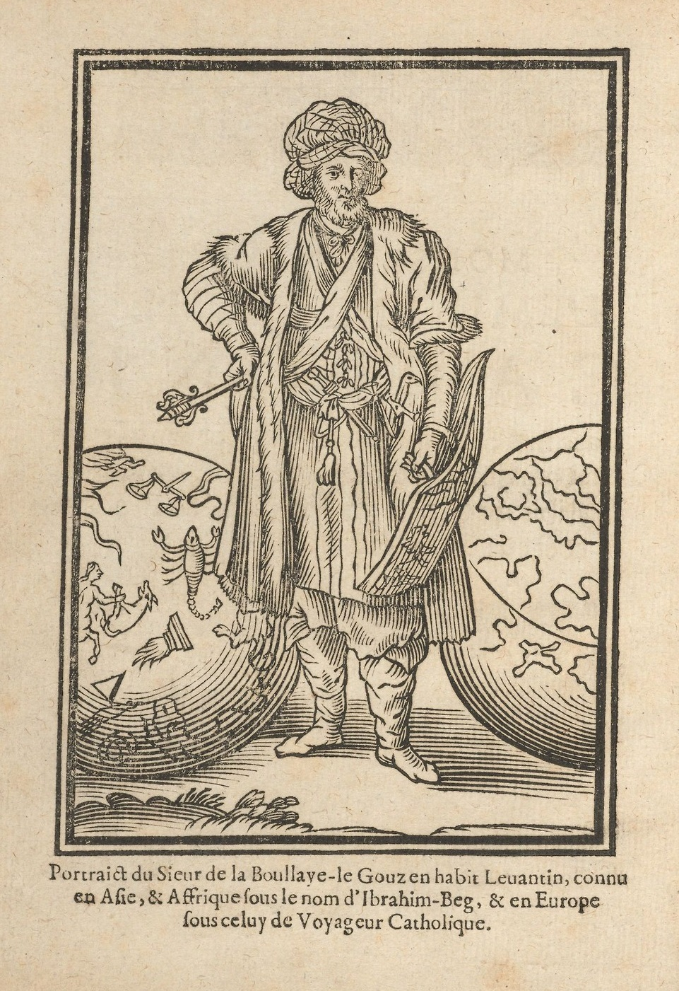 Frontispiece from Les voyages et observations, 1657, by François Le Gouz de La Boullaye. Typ 615.57.508, Houghton Library, Harvard University